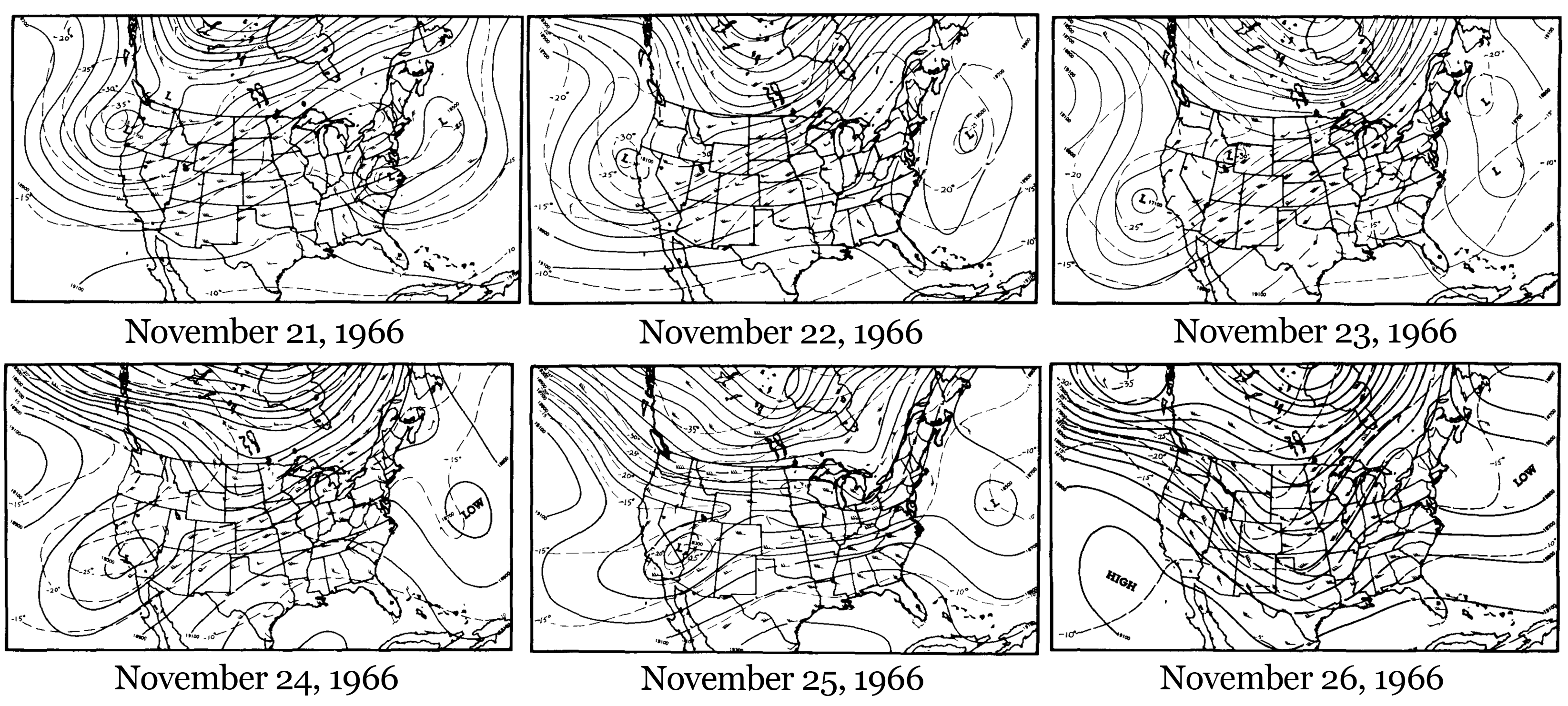 Weather maps depicting wind patterns at a height of 18,000 feet from November 21–26, 1966, created by employees of the US Department of Health, Education, and Welfare.